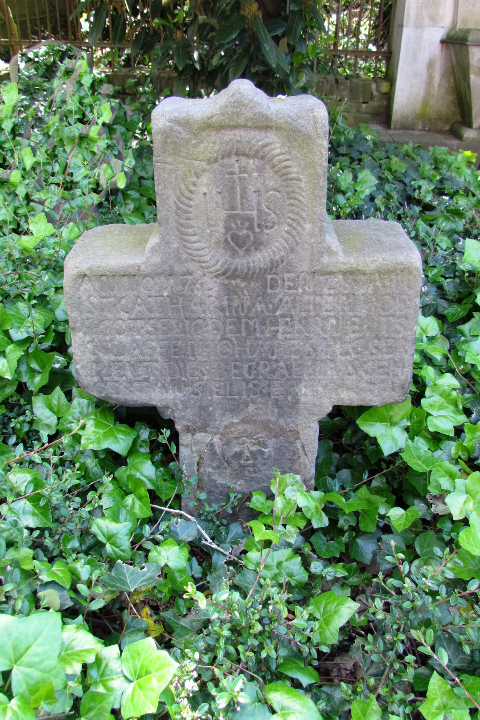 This is a photograph of an architectural monument.It is on the list of cultural monuments of Korschenbroich